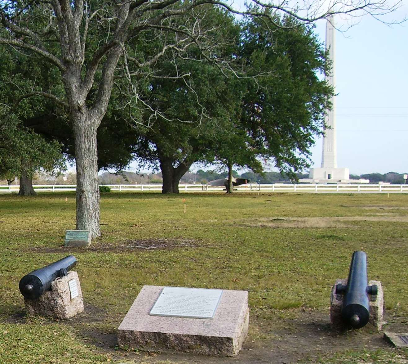 Photo by Nick Juhasz.